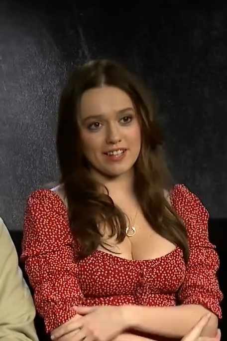 Aimee Lou Wood at an MTV International interview in January 2019